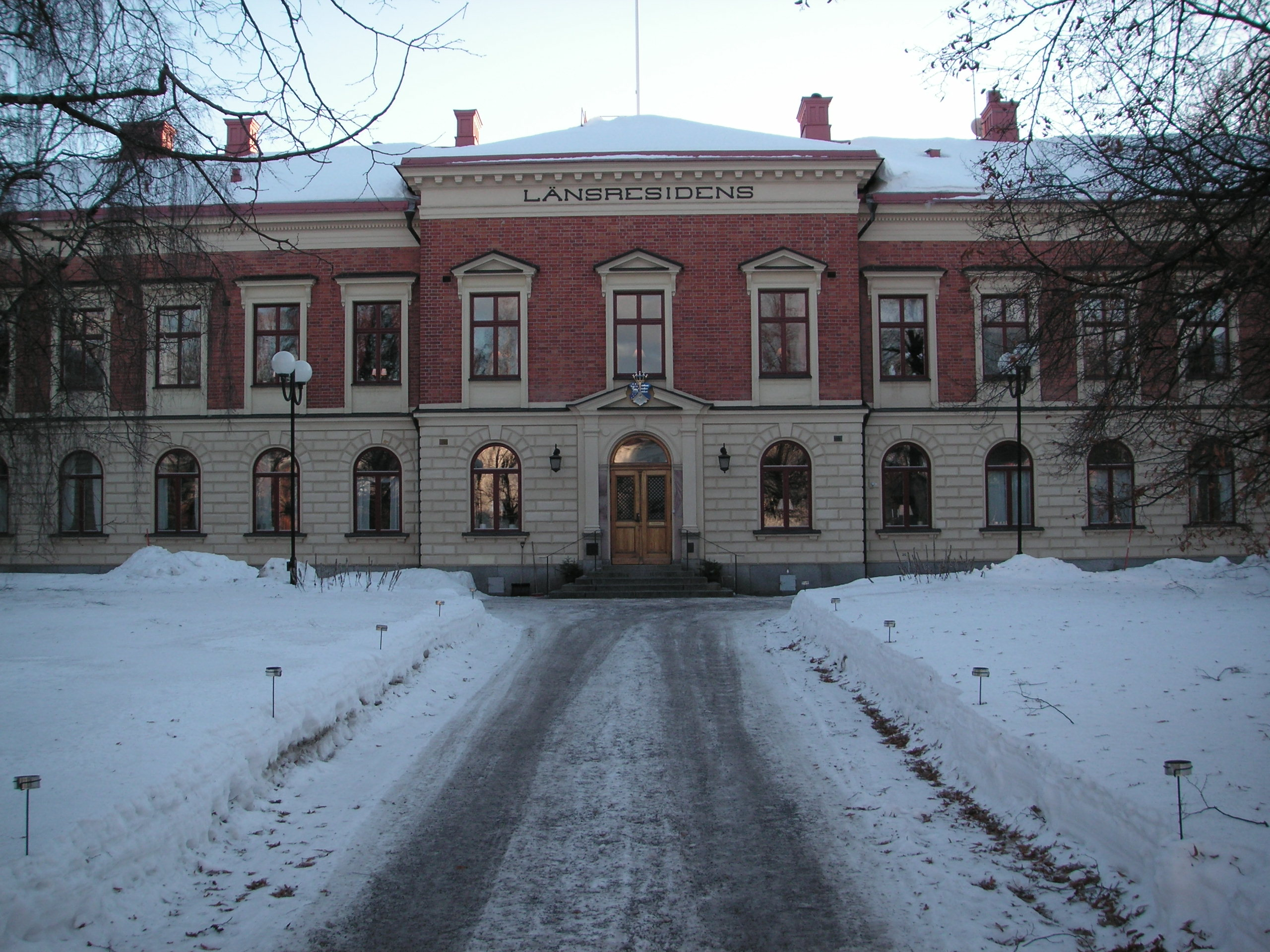 Länsresidenset in Umeå, Sweden.